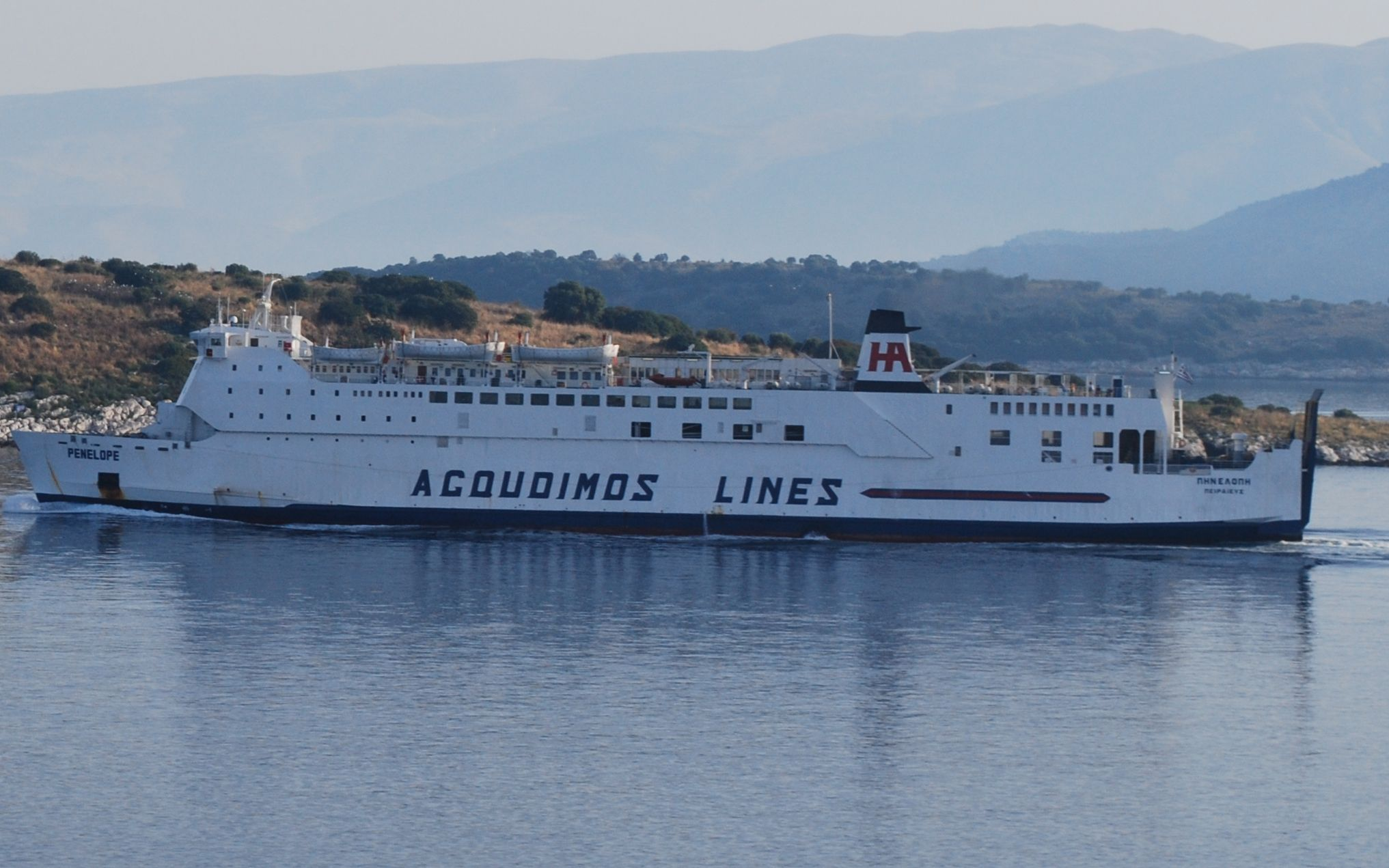 "Penelope" of Agoudimos Lines, in Adriatic Sea near Igoumenitsa (picture taken from "Olympic Champion" of ANEK Lines).